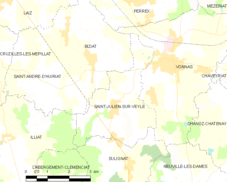 Map of French commune: Saint-Julien-sur-Veyle Map commune FR insee code 01368.png